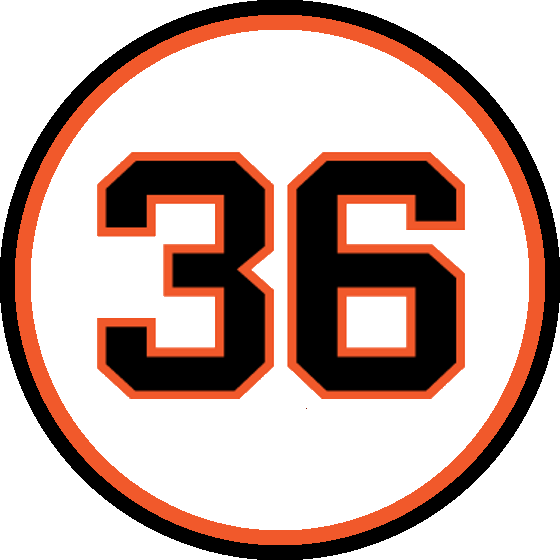 SF Giants retired number placard as shown inside stadium